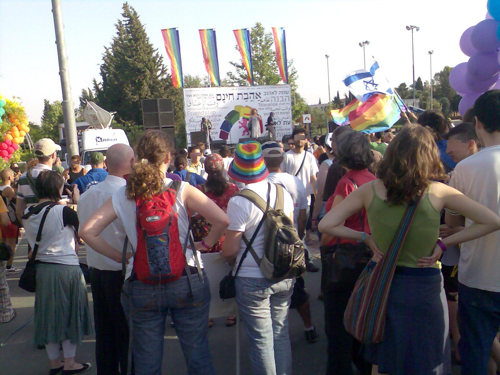 ==Description= Jerusalem pride parade 2008. Jerusalem, Israel.